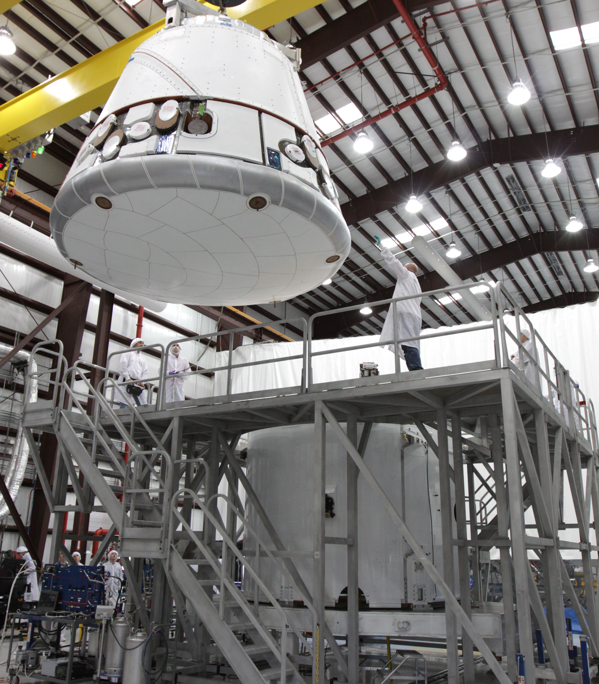 CAPE CANAVERAL, Fla. -- The Space Exploration Technologies Corp. (SpaceX) Dragon capsule is placed atop its trunk inside a processing hangar at Cape Canaveral Air Force Station in Florida on Nov. 16. Later, the combination will be attached to the top of a Falcon 9 rocket on Space Launch Complex-40 for the company's next demonstration test flight for NASA's Commercial Orbital Transportation Services (COTS) program. SpaceX is one of two companies under contract with NASA to take cargo to the International Space Station. NASA is working with SpaceX to combine its last two demonstration flights, and if approved, the Falcon 9 rocket would launch the Dragon capsule to the orbiting laboratory for a docking within the next several months.